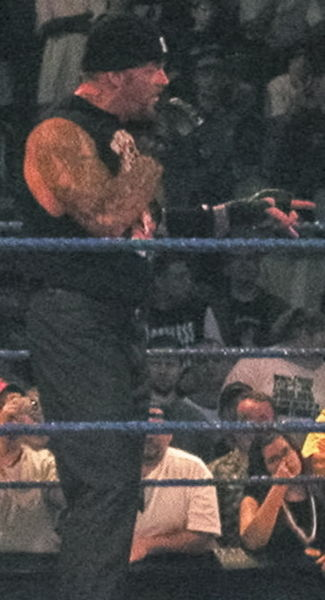 Cropped from PD image, Image:Undertaker, Vince McMahon, Brock Lesnar, & Sable in a WWE ring.JPG Original uploader: User:Jeffhardywhyx